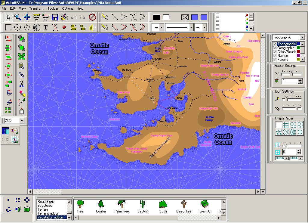 Screenshot of the main window of the AutoREALM software.